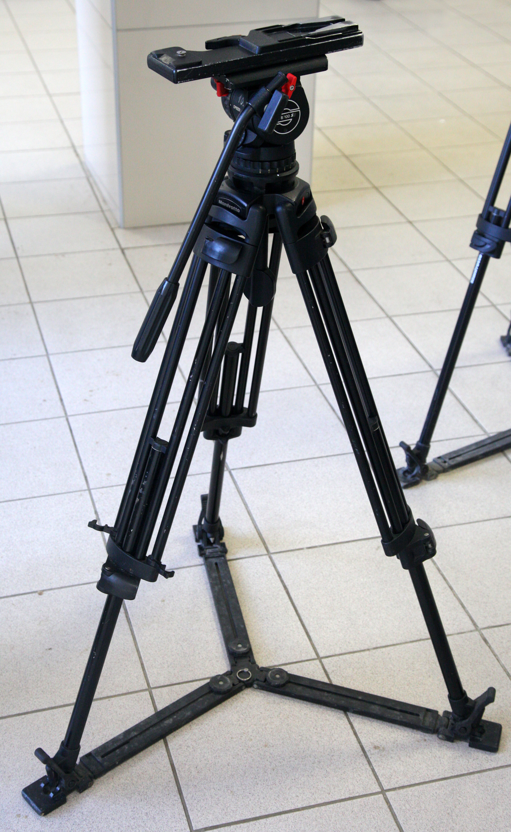 Tripod "Sachtler" for ENG video camera.